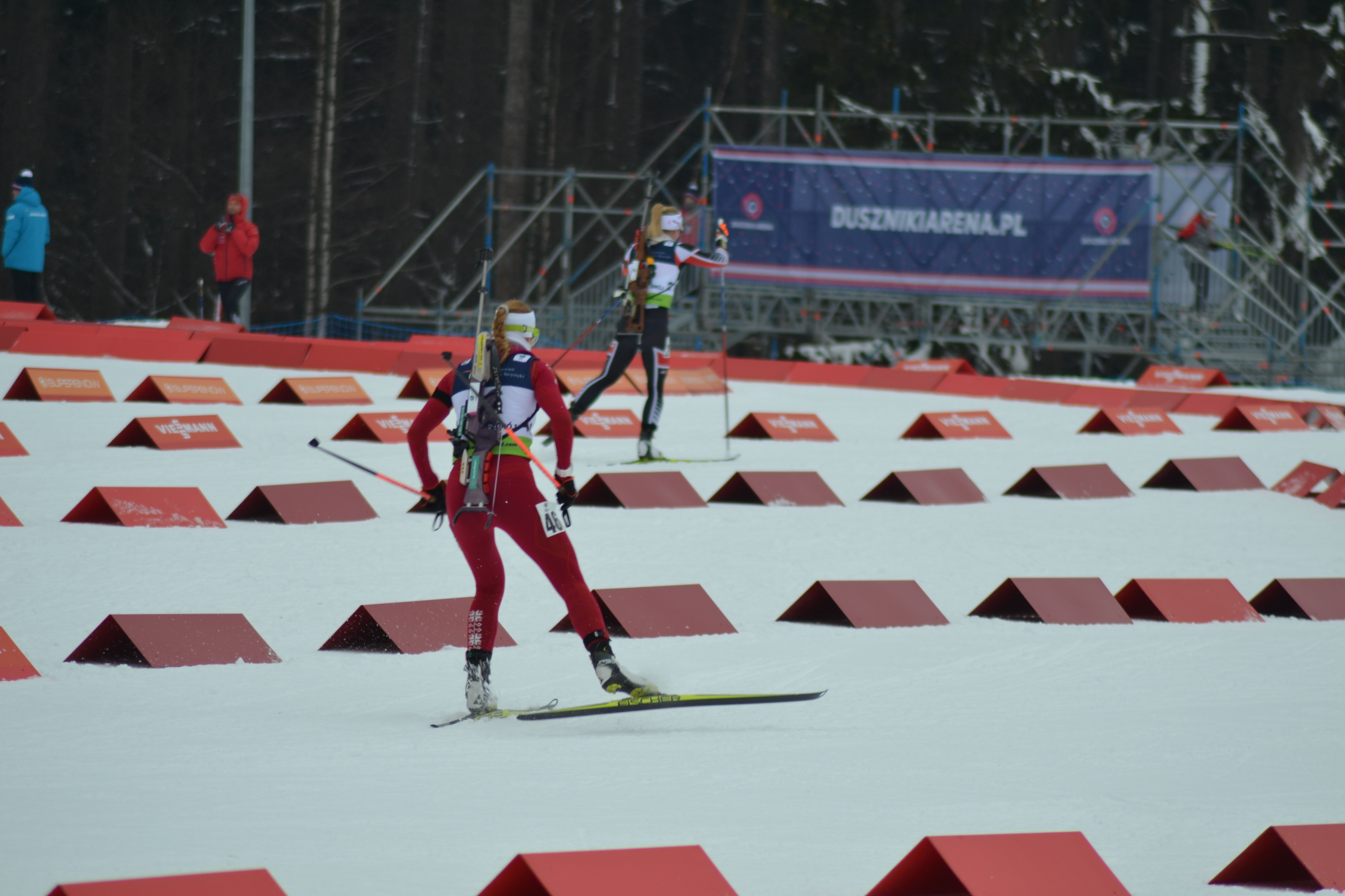 Open European Championships Biathlon 2017, Individual Women's race, held on January 25th.